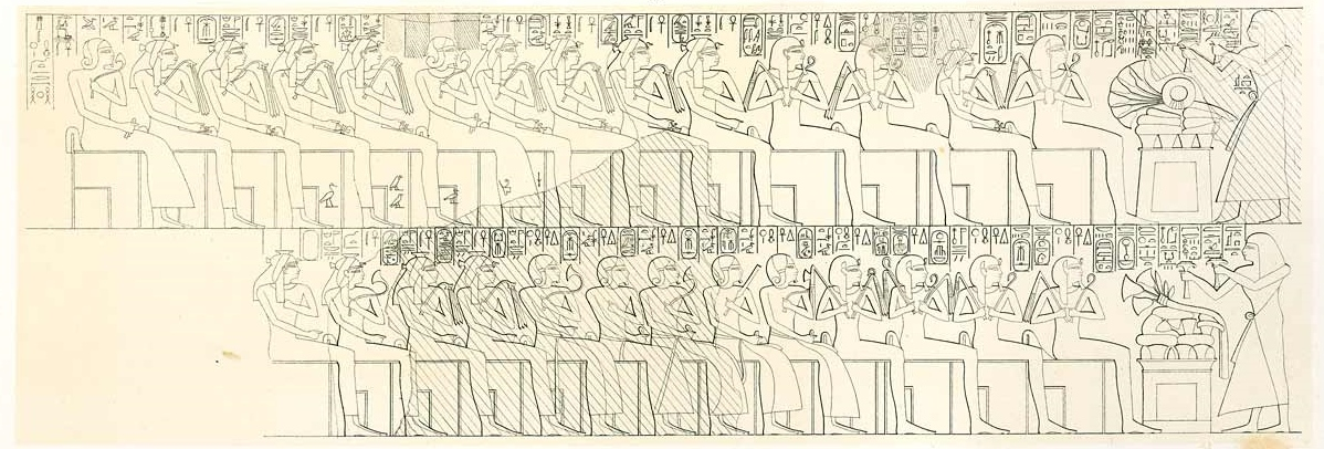 Khabekhnet before Kings and Queens (TT2)